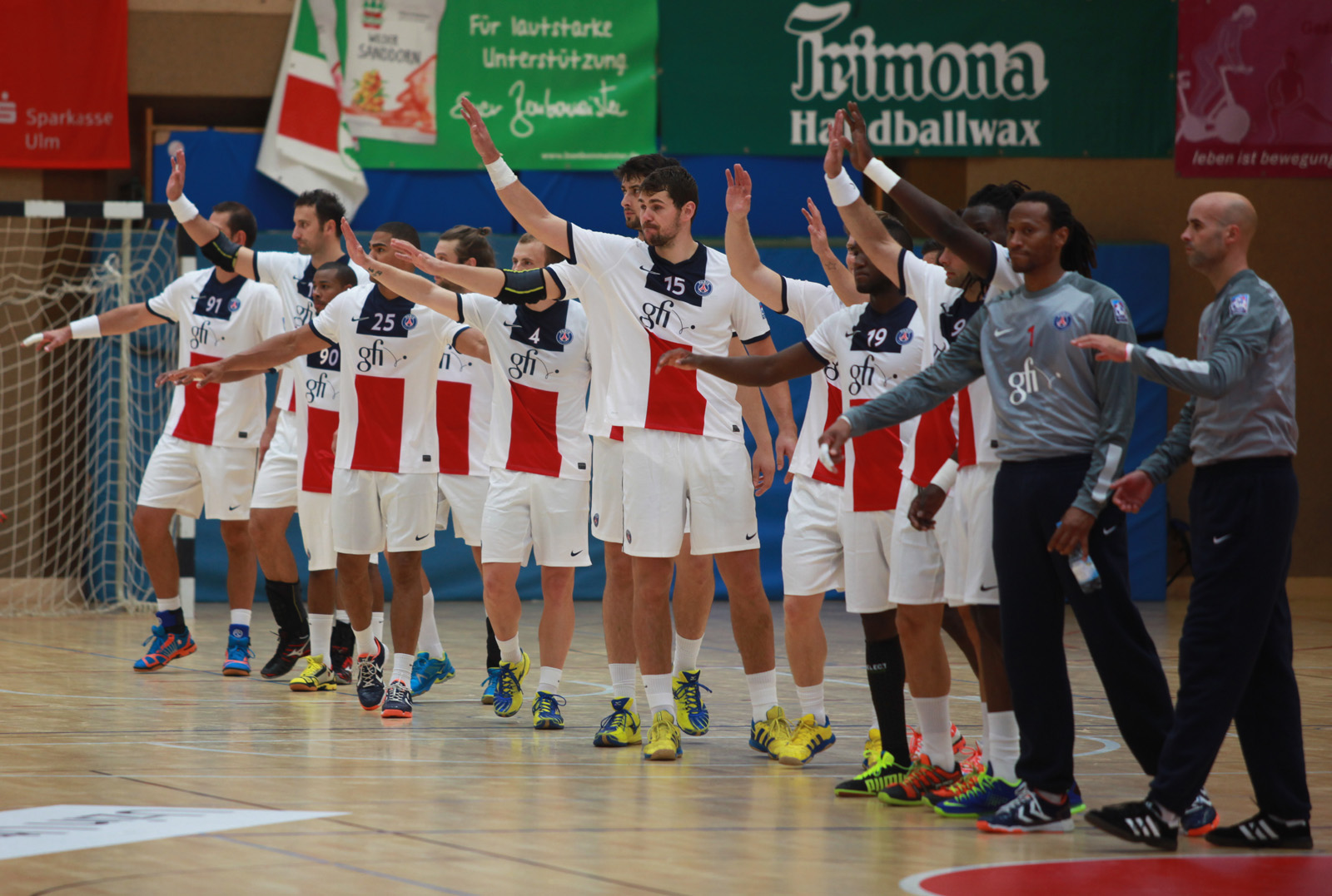 The team of Paris Saint-Germain HB, on August 17th, 2012 in Ehingen (Germany), during the Sparkassen Cup (formerly known as Schlecker Cup).